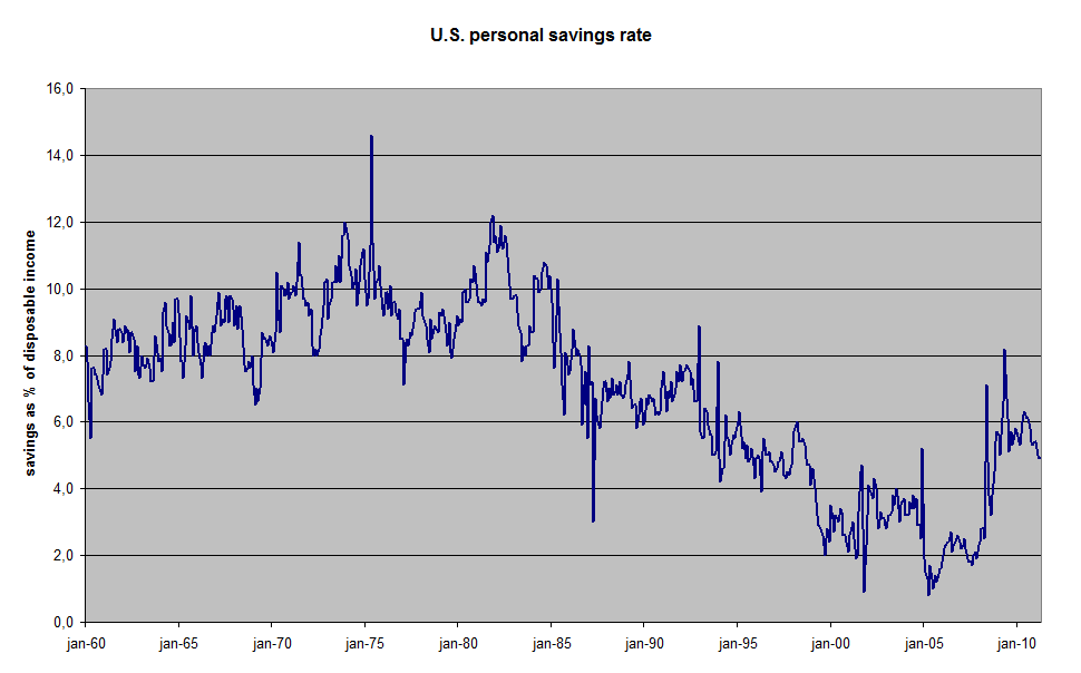 Development of US personal savings rate. Source: Federal Reserve Bank of St. Louis, Economic Research, series ID PSAVERT